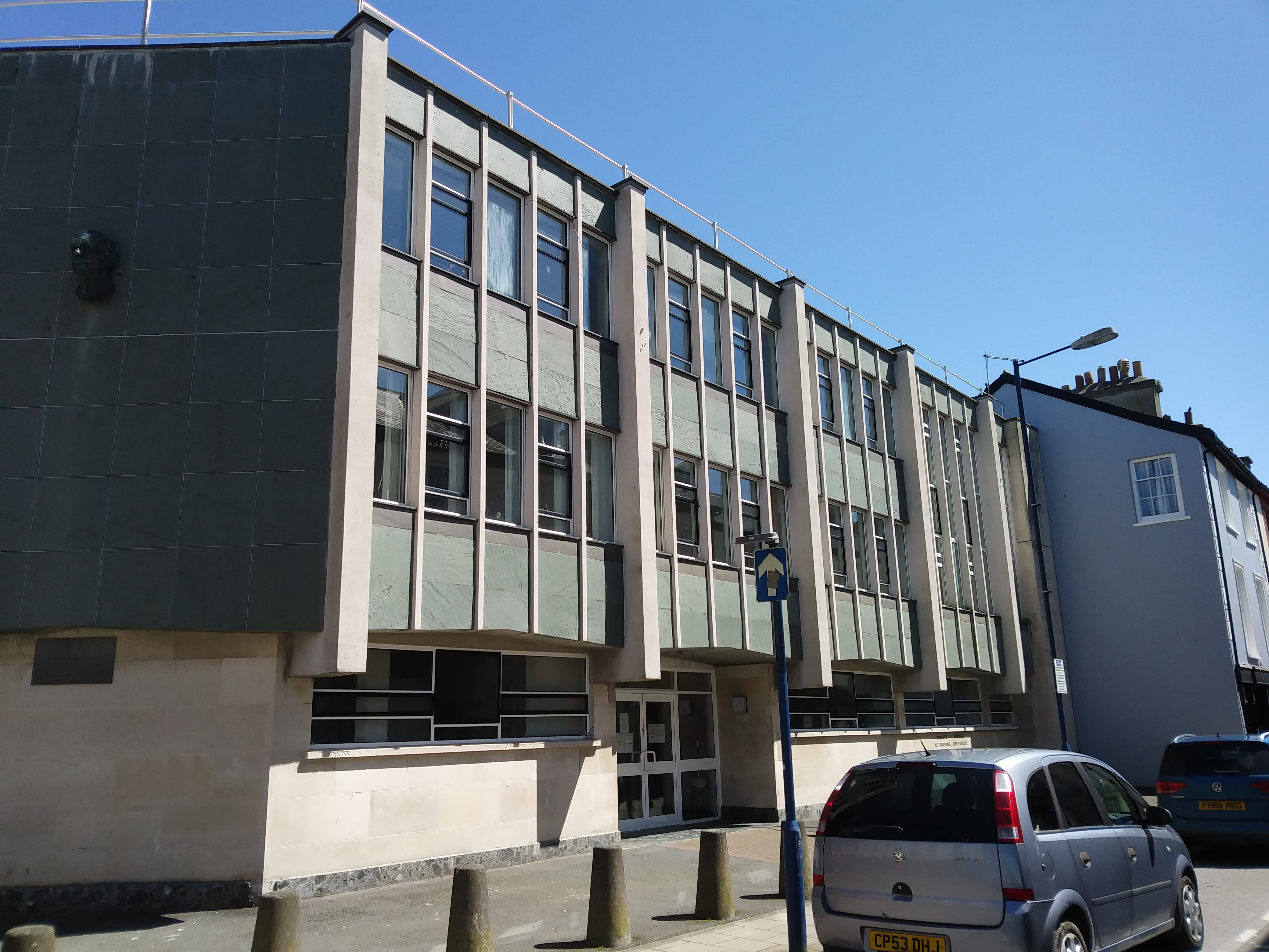 Market St, Aberystwyth, Pantyfedwen Building